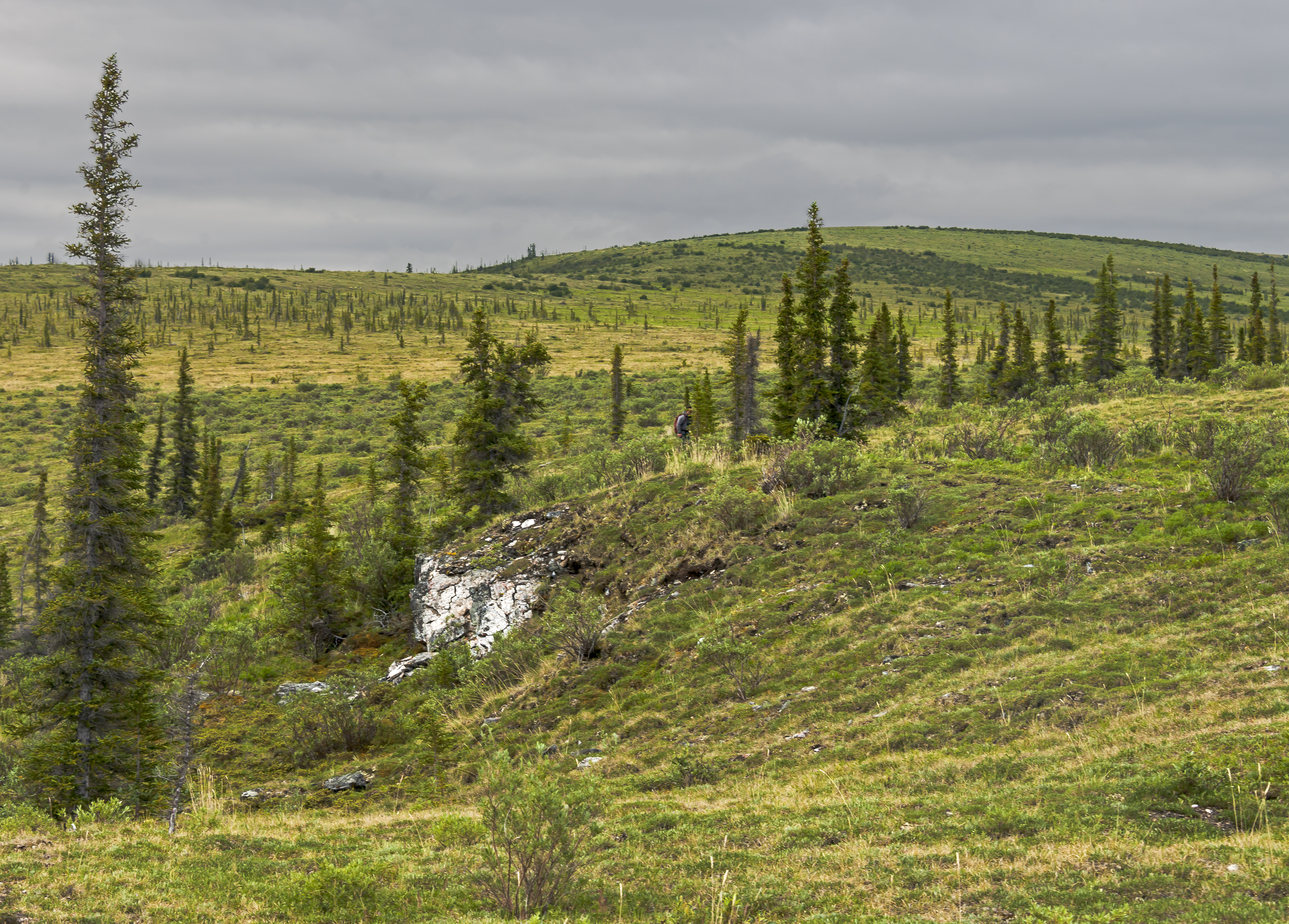 Black spruce are one of the only tree species that flourish on the tundra landscape in Canada's Ivvavik National Park